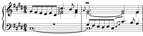 The first two bars of Bach's Prelude in C# minor, BWV 849